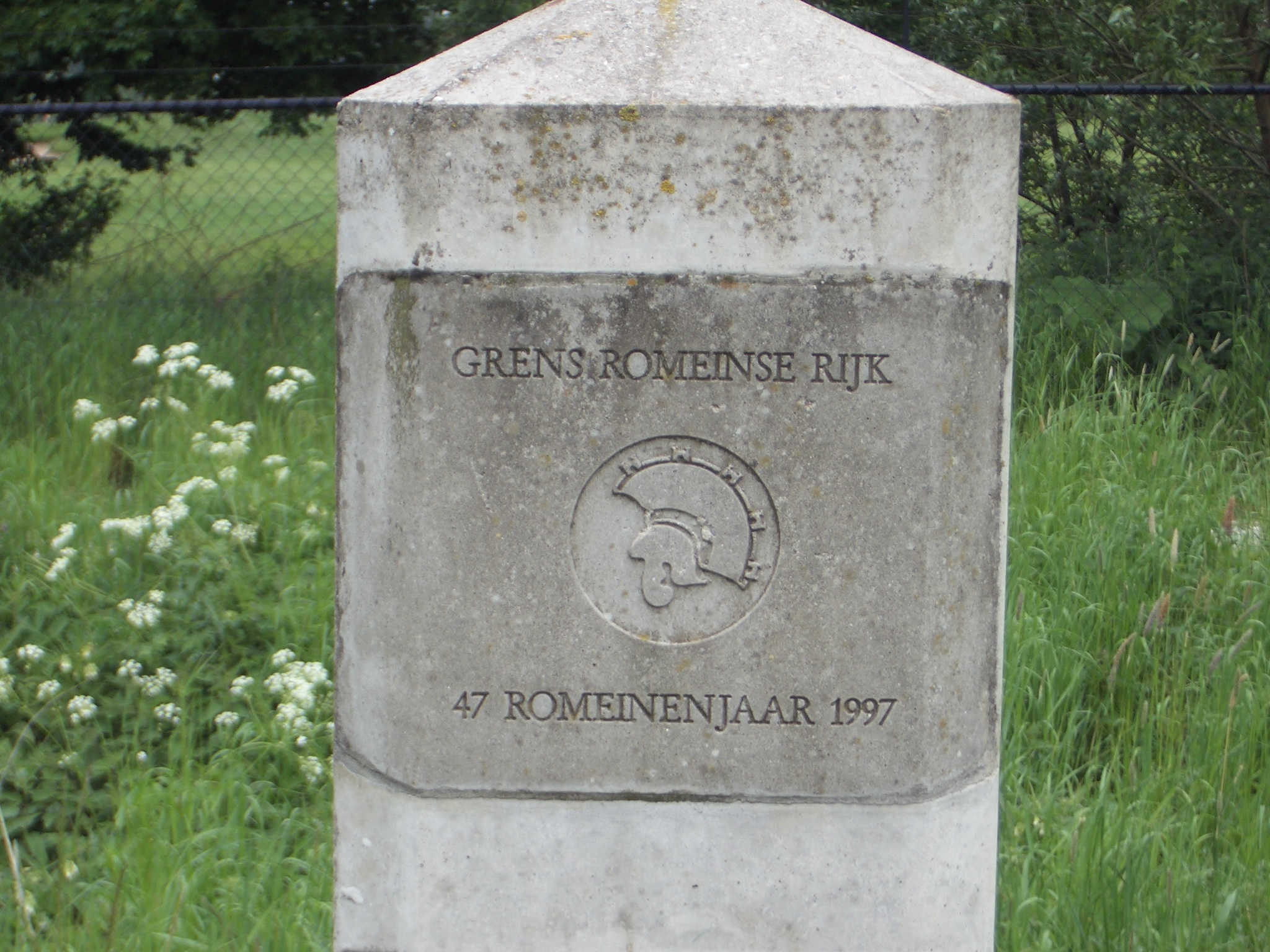 modern boundary stone of the Roman Empire in the Netherlands